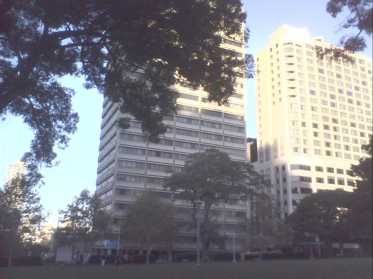 The former Avery Building headquarters of New South Wales Police until about 2003.